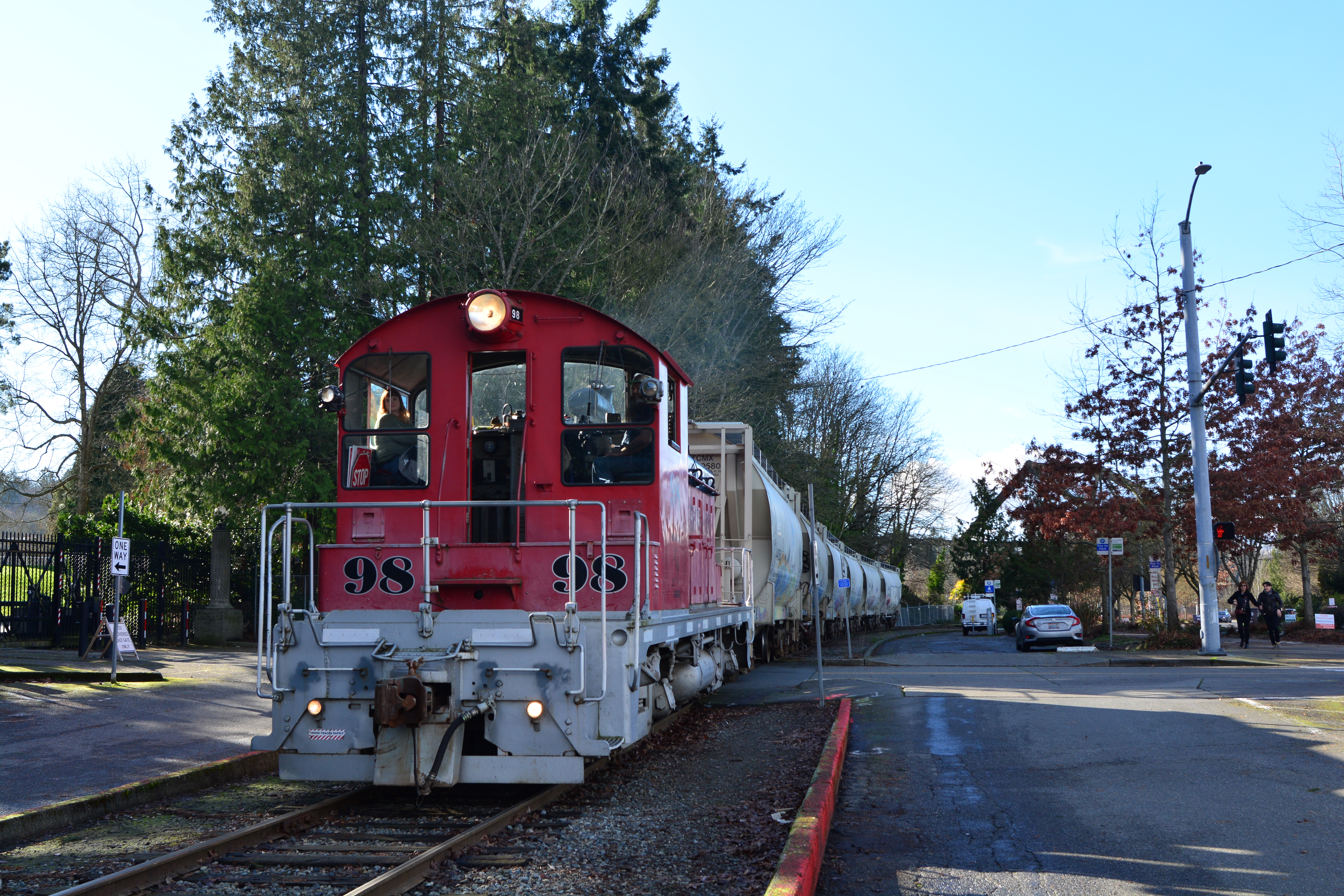 Ballard Terminal Railroad; EMD SW1 locomotive "Li'l Beaver" and multiple railway cars, headed east, just north of the Hiram M. Chittenden Locks in Ballard.